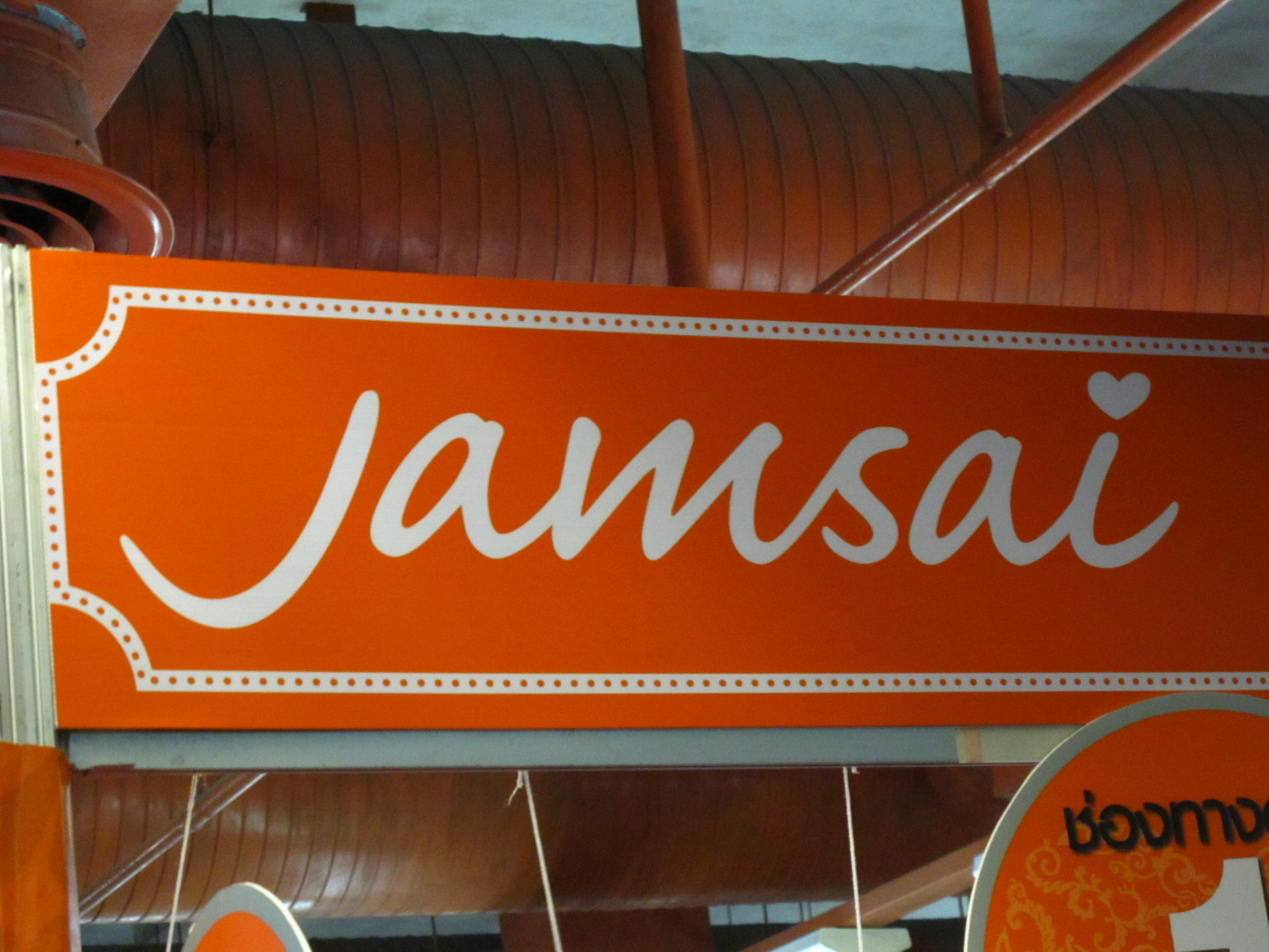 Jamsai booth Ver.1